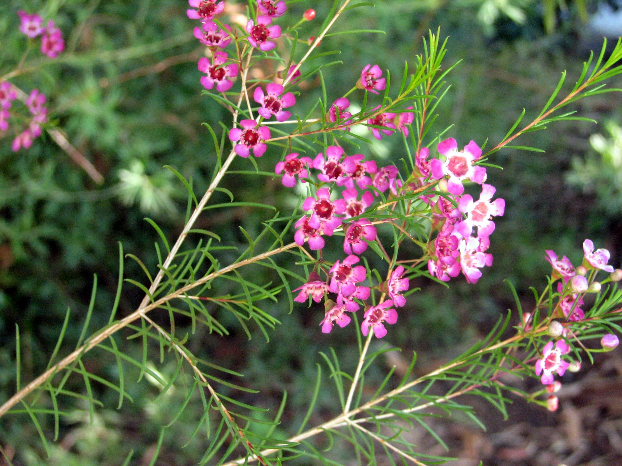 Geraldton Wax photographed by me in Chatswood, Sydney